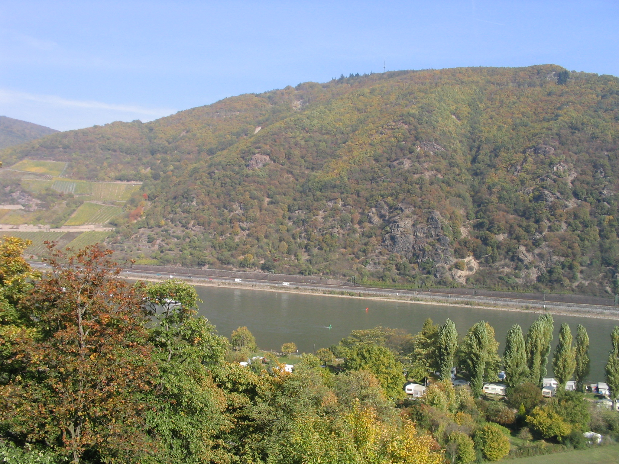 View of Teufelskadrich (415 m) near Lorch in the Middle Rhine Valley, opposite of Trechtingshausen, Germany.